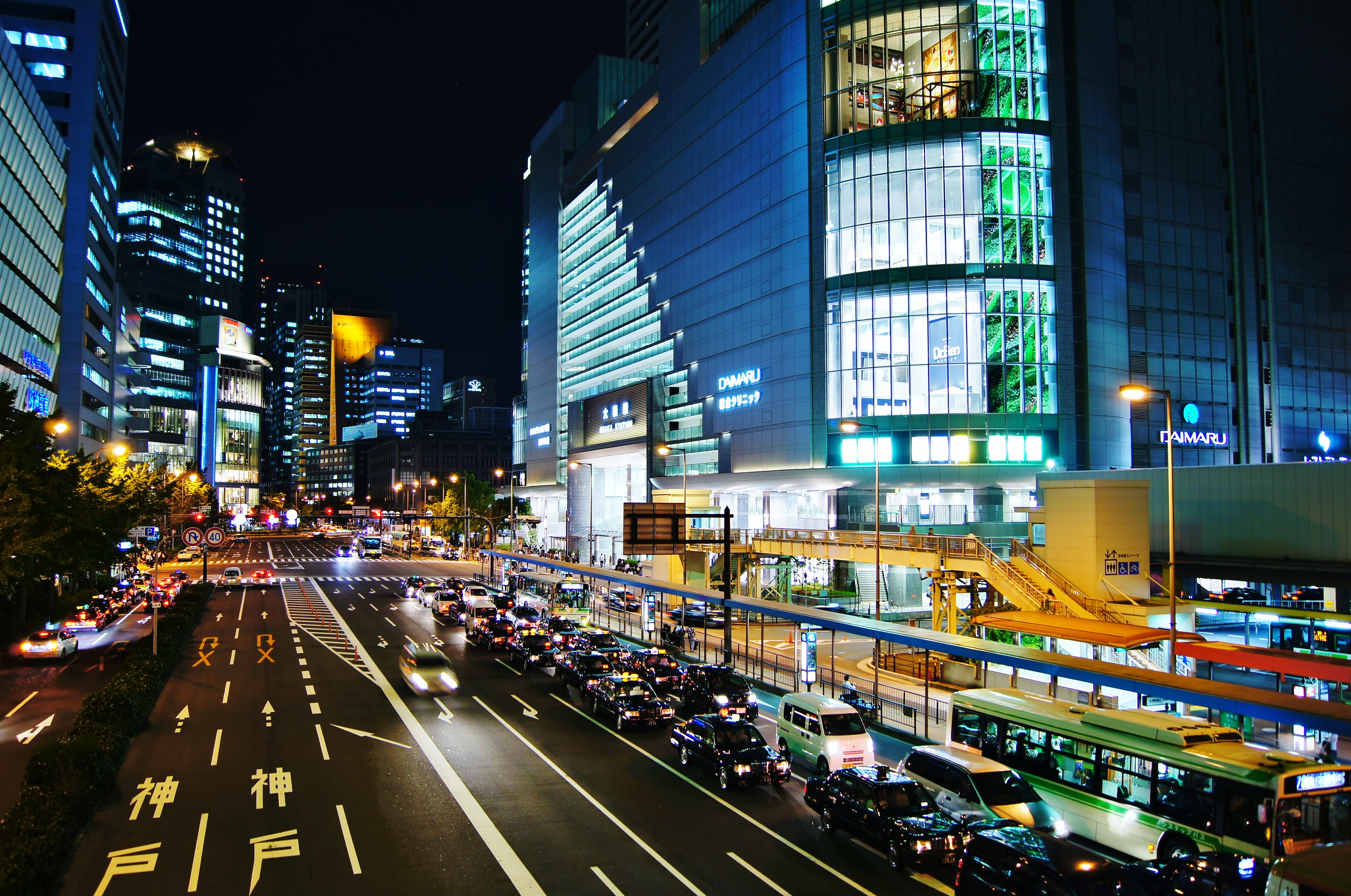 Osaka Station front view from Hanshin Railway pedestrian walkway